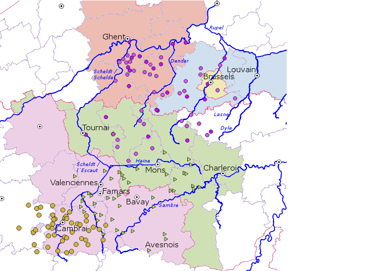 Pagi: Orange = Cambrésis; Yellow = Hainaut ; Purple = Brabant. The shaded areas are modern Belgian provinces or French departements.